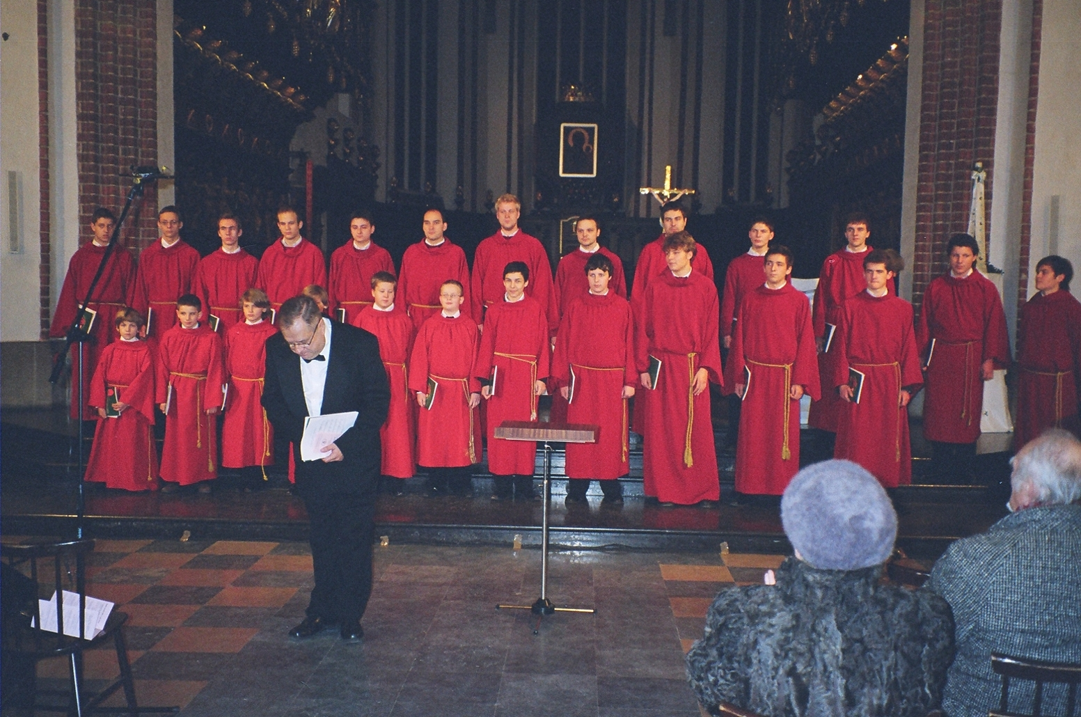 Cantores Minores - Warsaw Archdiocesan Cathedral Choir